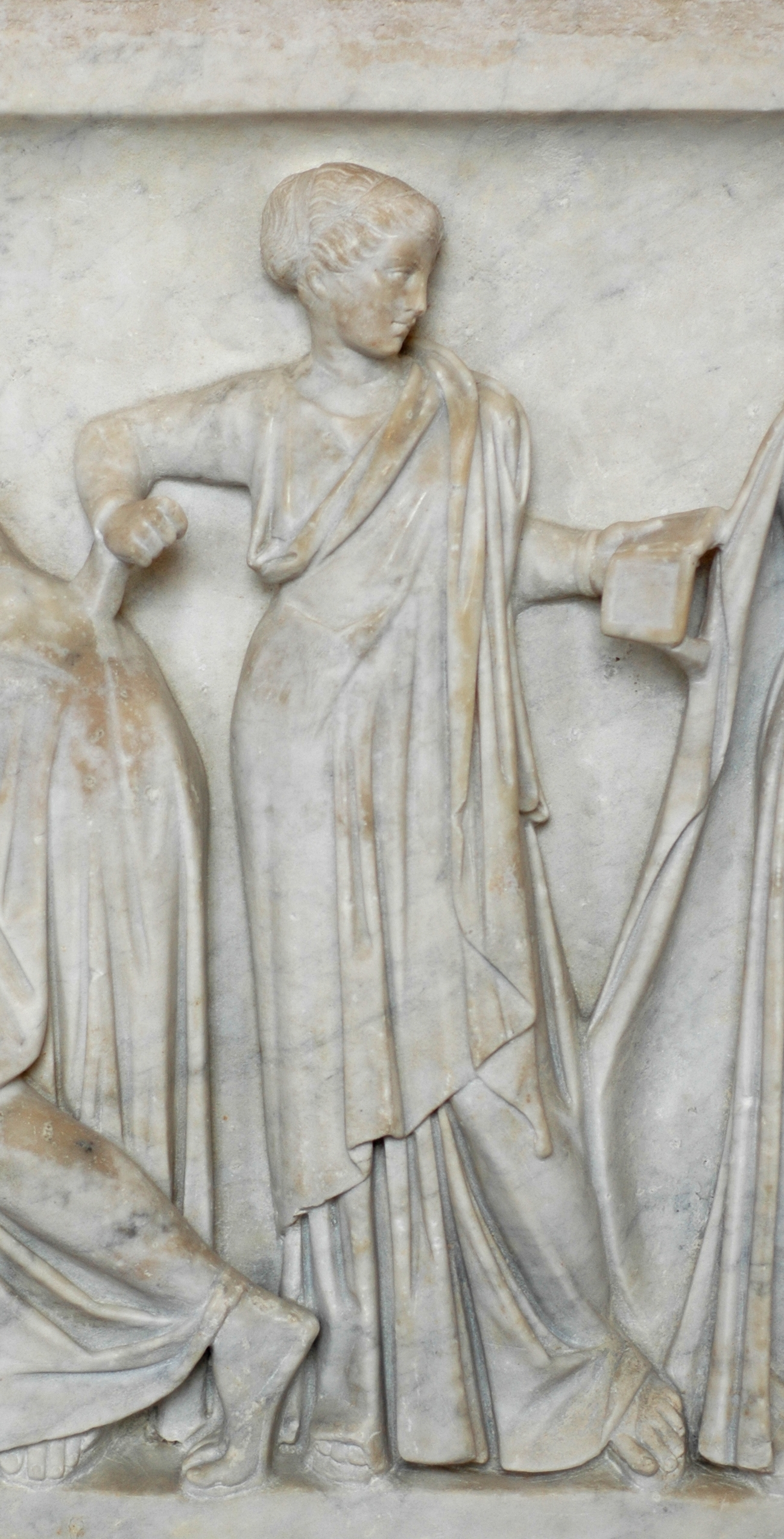 Clio, muse of history, holding writing tablets. Detail from the “Muses Sarcophagus”, representing the nine Muses and their attributes. Marble, first half of the 2nd century AD, found by the Via Ostiense.